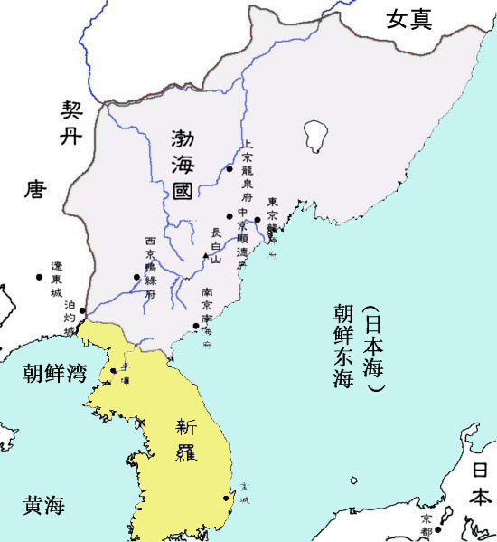 南北国时代